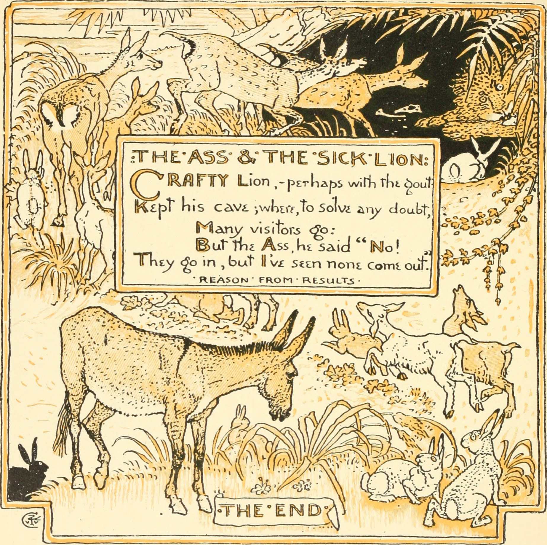 Title: The baby's own Aesop : being the fables condensed in rhyme with portable morals pictorially pointed by Walter Crane. Engraved and printed in colours by Edmund Evans Year: 1908 (1900s) Authors: Aesop Crane, Walter, 1845-1915 Evans, Edmund, 1826-1905 Subjects: Fables Publisher: New York : F. Warne Text Appearing Before Image: ' Text Appearing After Image: '